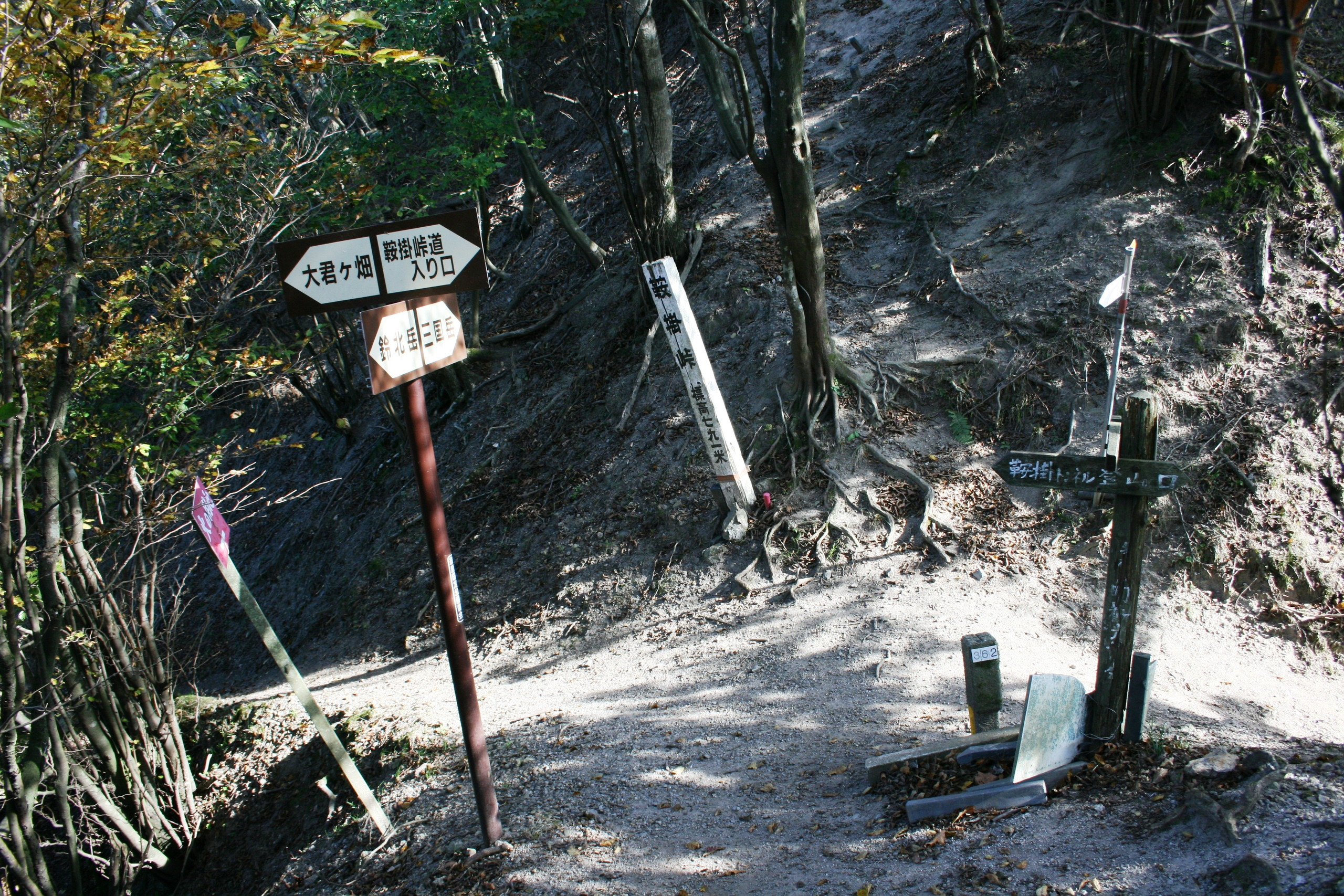 Kurakake Pass of Suzuka Mountains